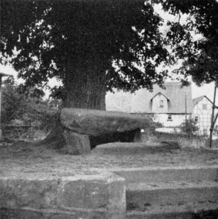 Stone table of the court of justice in Vollmarshausen